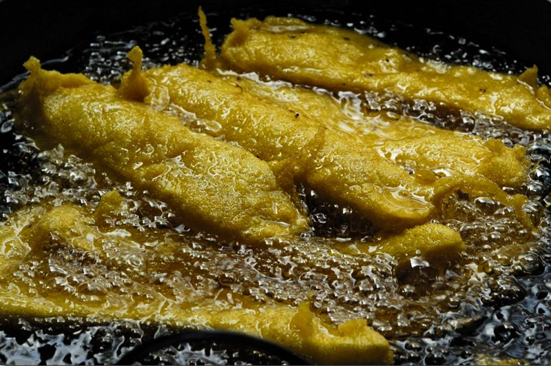 And found a cpl of recipes too here & here